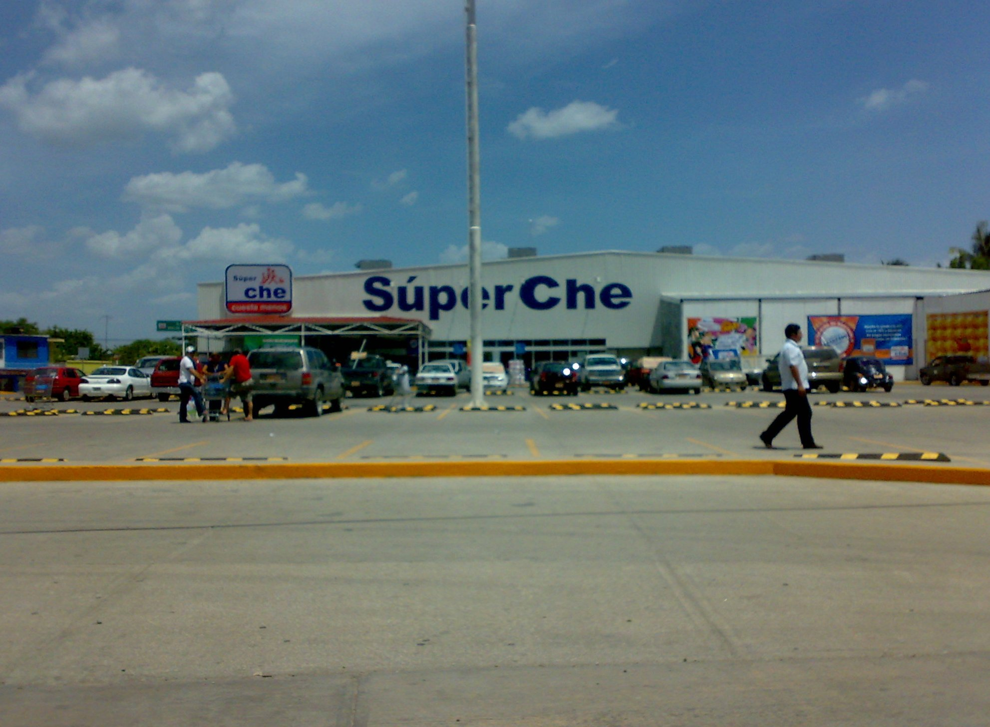 super che macuspana